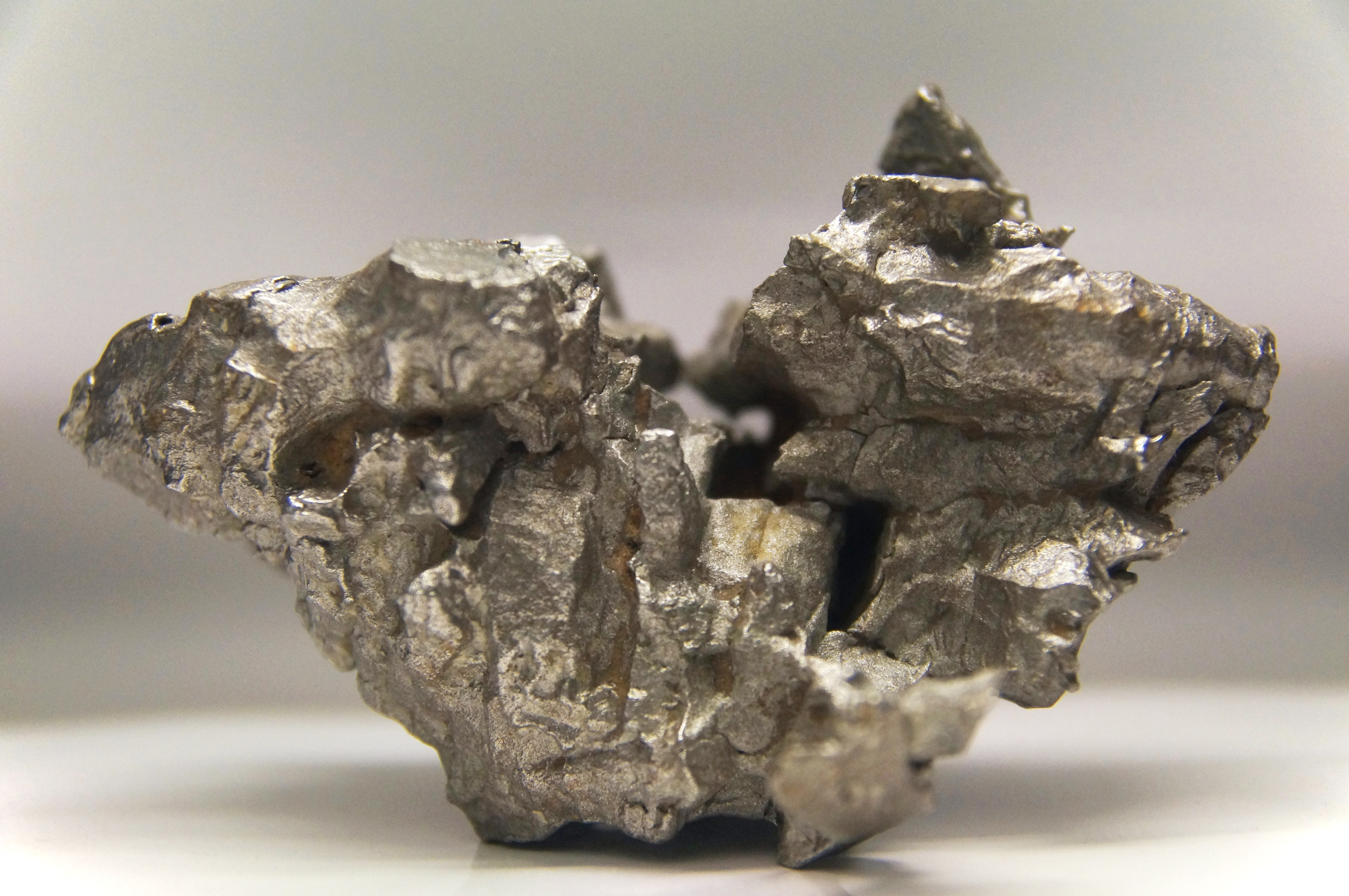 Iron meteorite found in 1980-s in Russia. Photo from TUT muuseum.